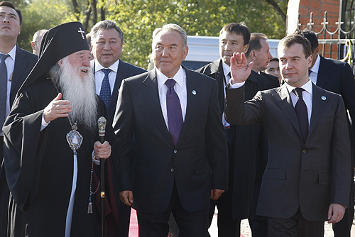 AKTYUBINSK. With President of Kazakhstan Nursultan Nazarbayev and Archbishop Anthony of Uralsky and Gurevsky during a visit to the St Nikolai Orthodox Church.